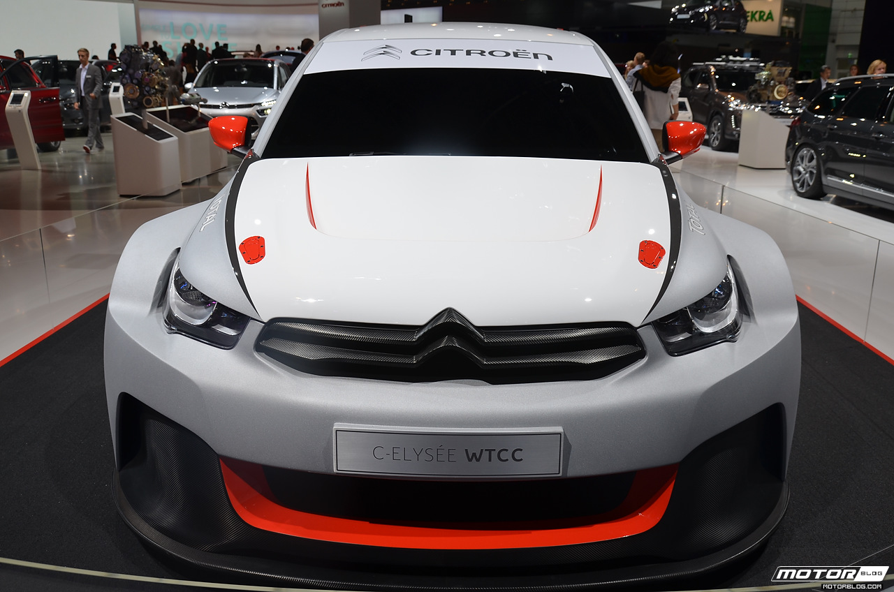 IAA Frankfurt 2013: Citroen C-Elysee WTCC / Photo: Raphael Jahn ______________________ Please feel free to use this image for FREE under the Creative Commons (CC) licence. However, if you use the image, pls set a backlink to and give credit as following: "Image: ". For highres images or any other inquiries pls contact mailto: . Thanks.